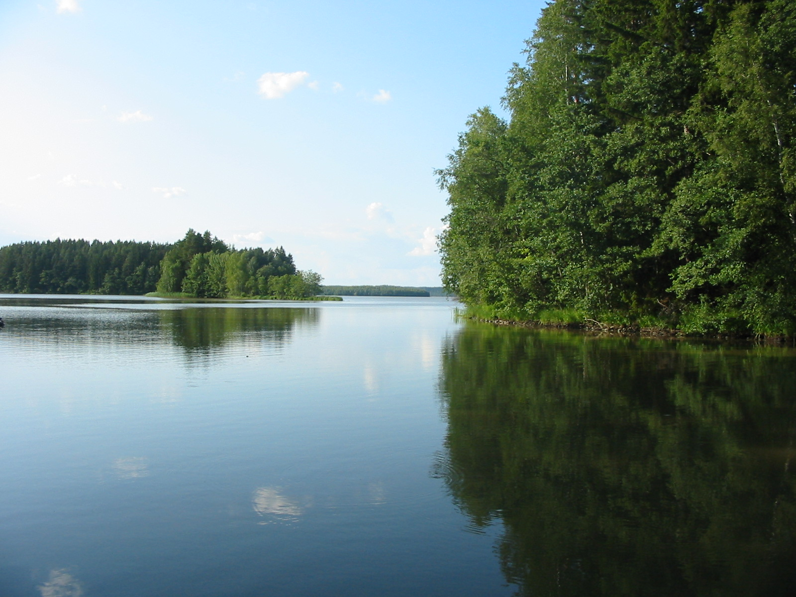 Lake Painio in Somerniemi, Somero, Finland